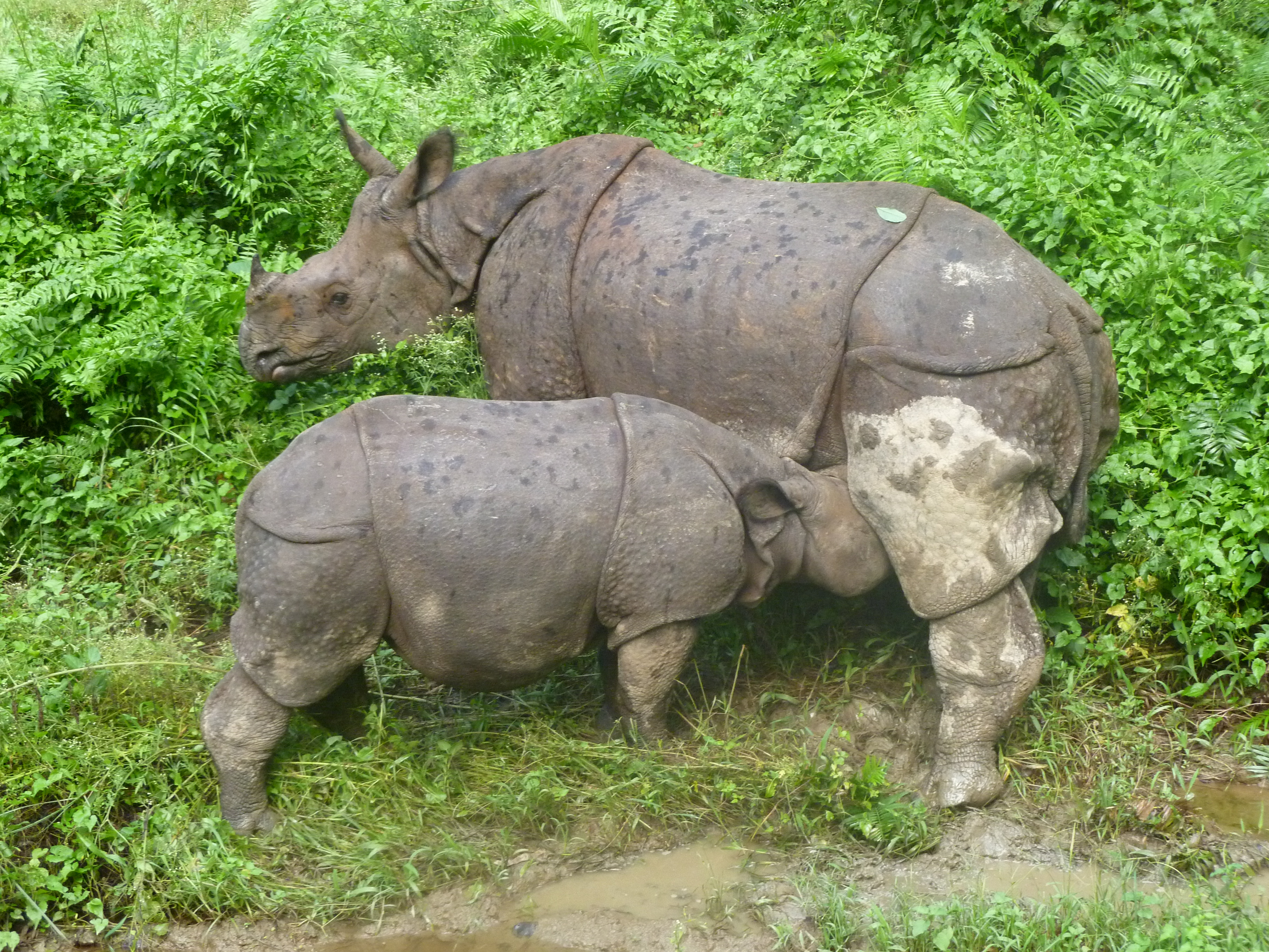 Indian rhinoceros in Nepal